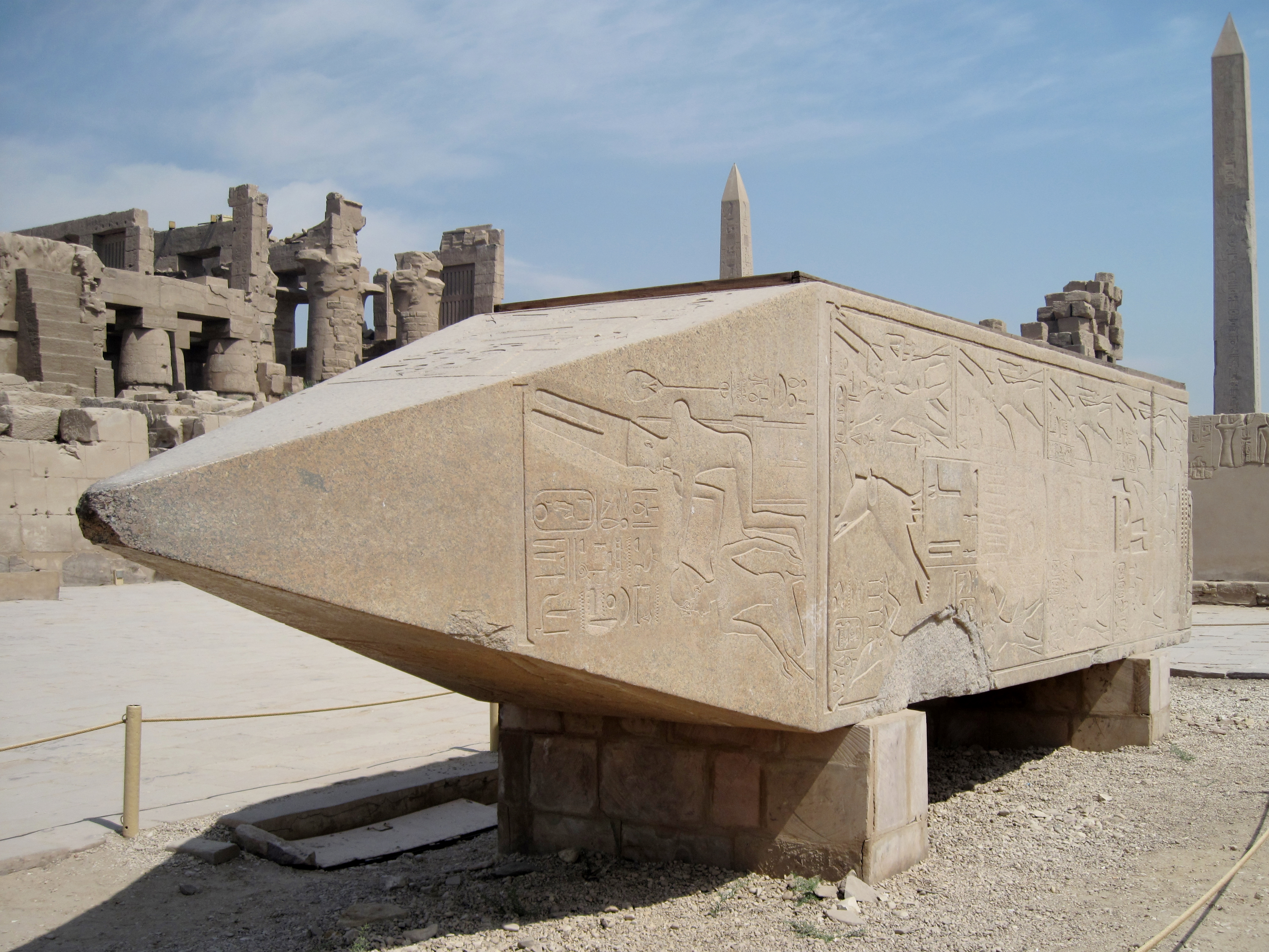 Fallen Obelisk at the Temple of Karnak north of Luxor, Egypt. (This obelisk was made by Hatshepsut).